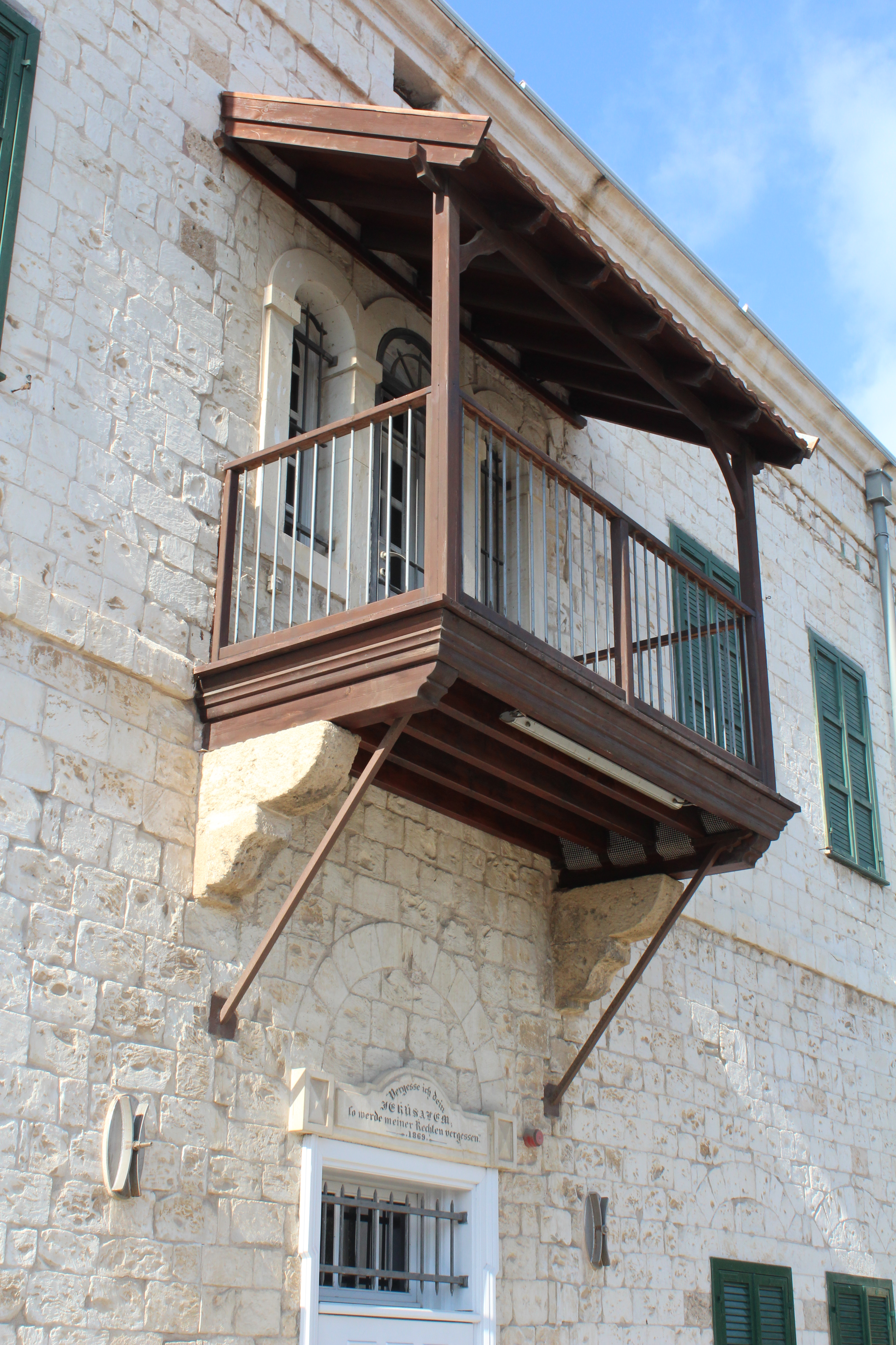 Templar Communal Home, The German Colony, Haifa 63″ N, 34° 59′ 31.85″ E